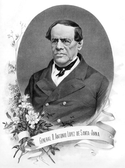 Antonio López de Santa Anna